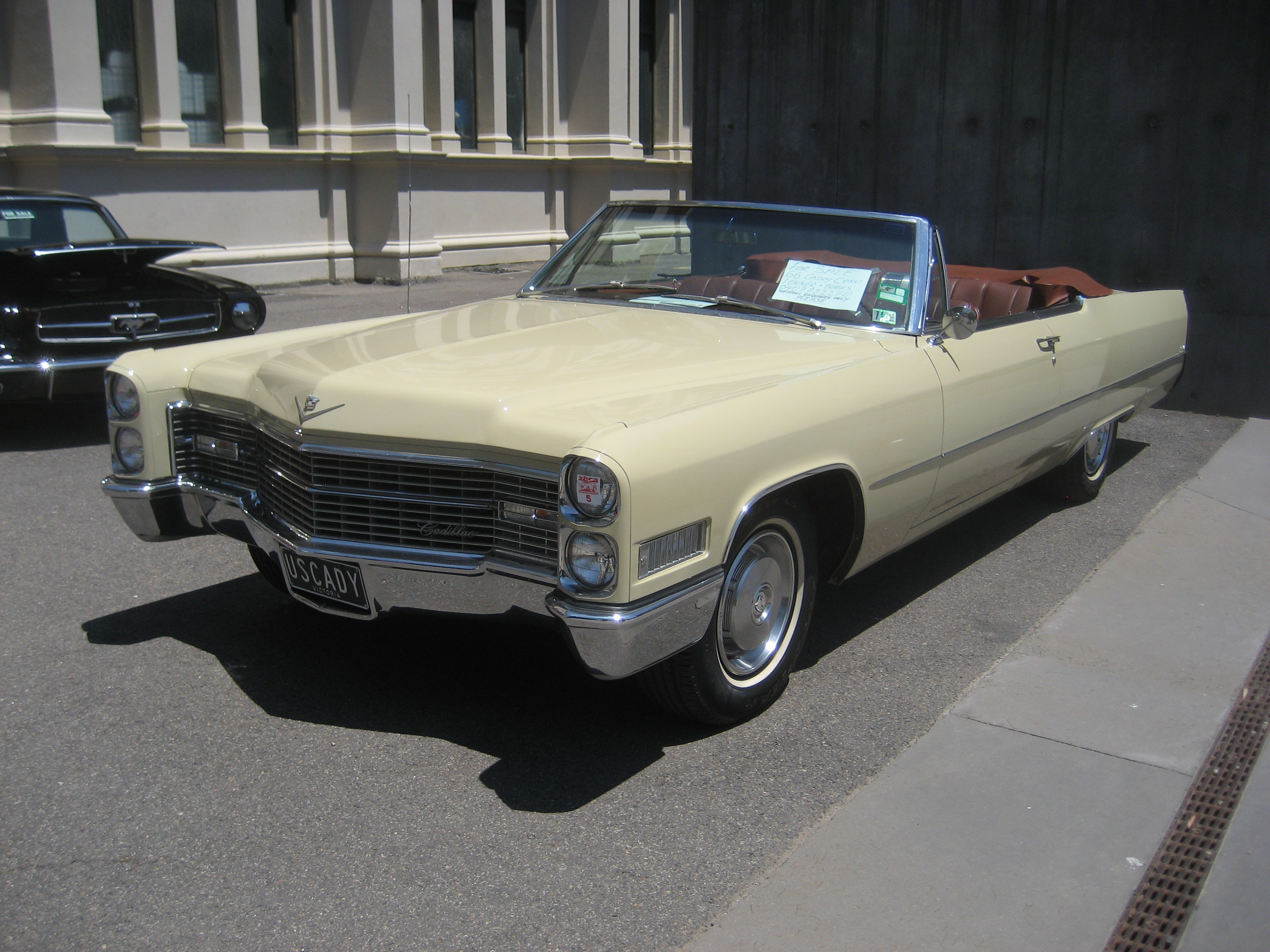 Available in Sedan, Coupe or Convertible. Engine; 429 cu in V8